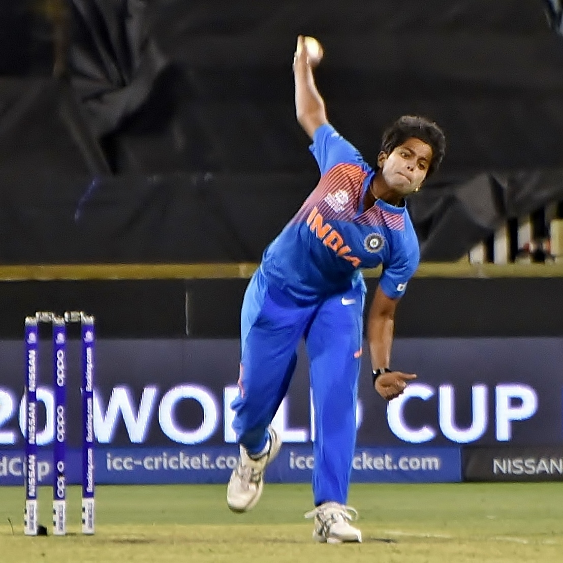 Arundhati Reddy bowling for India against Bangladesh during their 2020 ICC Women's T20 World Cup match at the WACA Ground in Perth, Australia